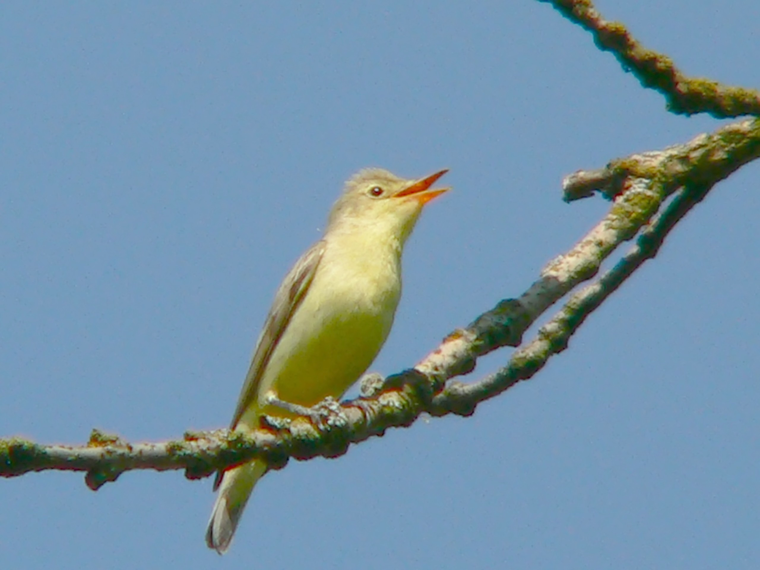 Icterine Warbler (Hippolais icterina}, Biebrza National Park, Poland